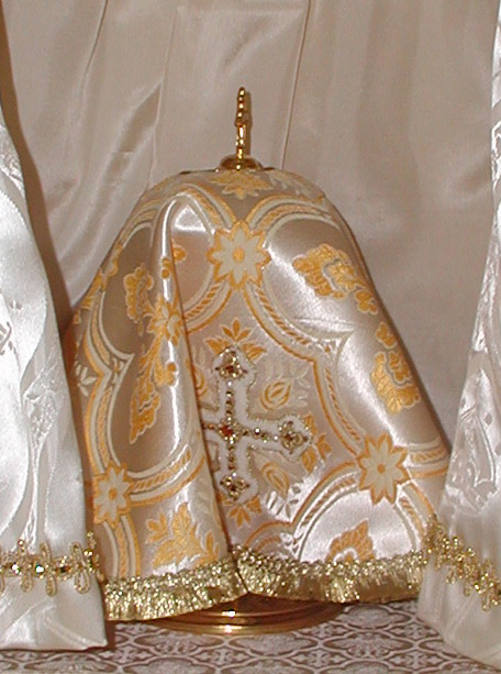 Ciboriom in the church tabernacle of the monestary Onze-Lieve-Vrouwe van de Besloten Tuin (Netherlands). It is covered with a 'Ciborievelum' (Dutch) to indicate the presence of hosts inside. See also Image:Ciborie1.jpg for a version without the Ciborievelum, and File:Tabernakel binnen.jpg for a wider shot.